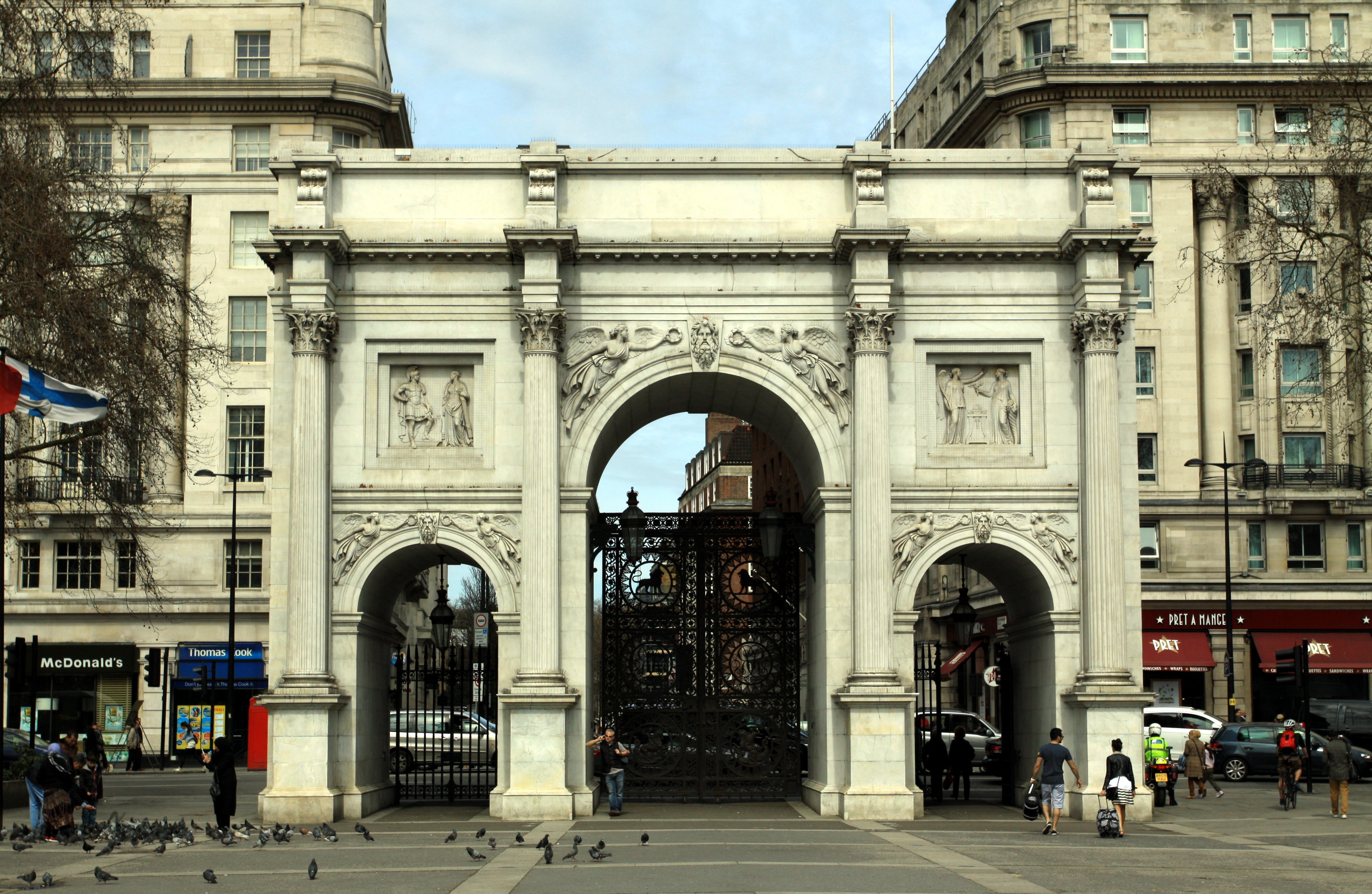 Marble Arch in the City of Westminster, London, Great Britain. The making of this file was supported by Wikimedia UK.